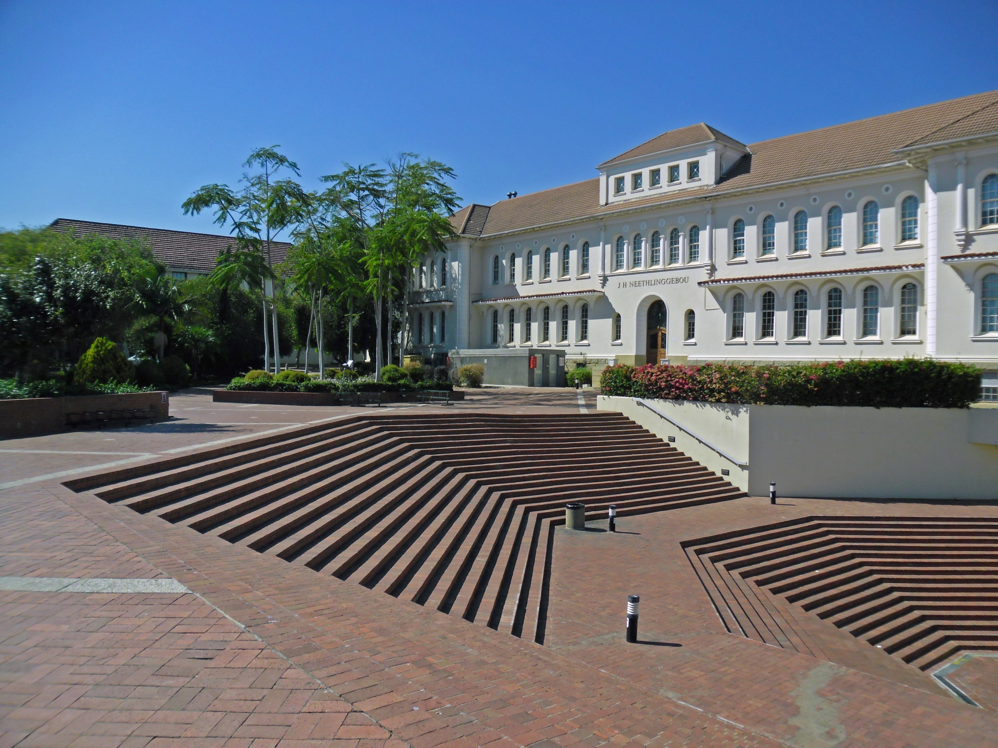 The J.H. Neethling Building viewed from the Rooiplein (Stellenbosch University).